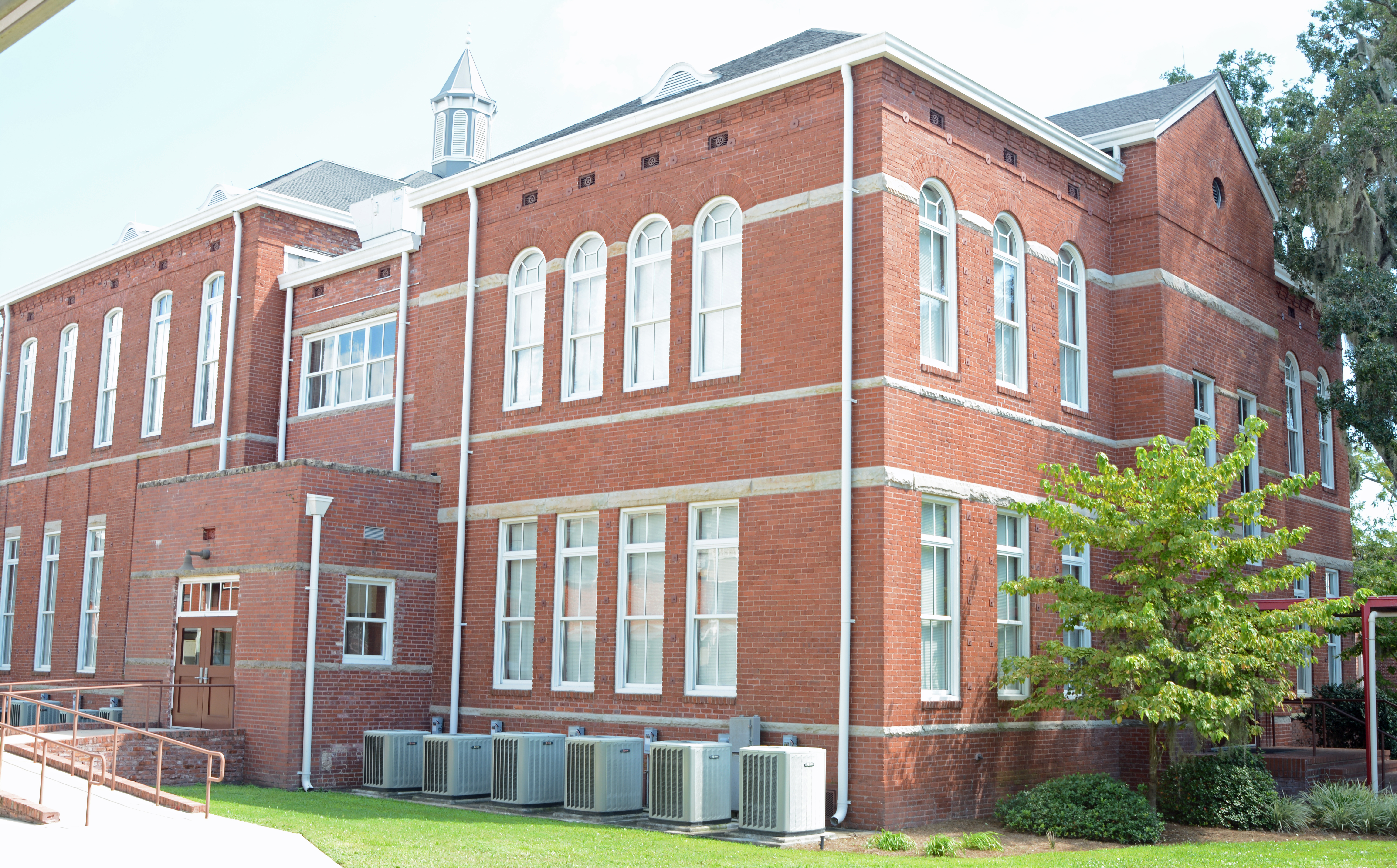 The Annex Building at Glynn Academy, Brunswick, Georgia, US. Built in 1889.